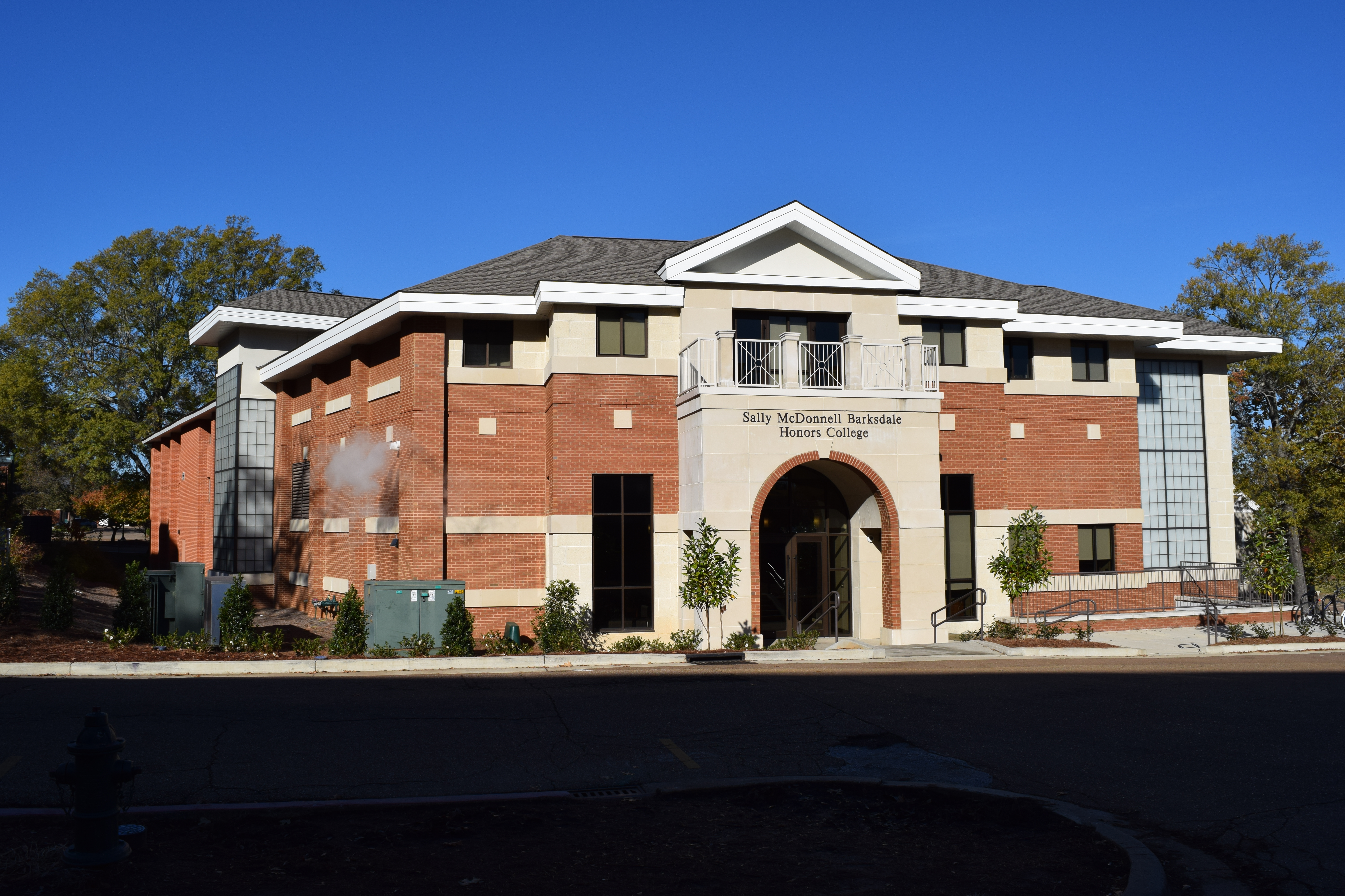 The Sally McDonnell Barksdale Honors College on the University of Mississippi campus